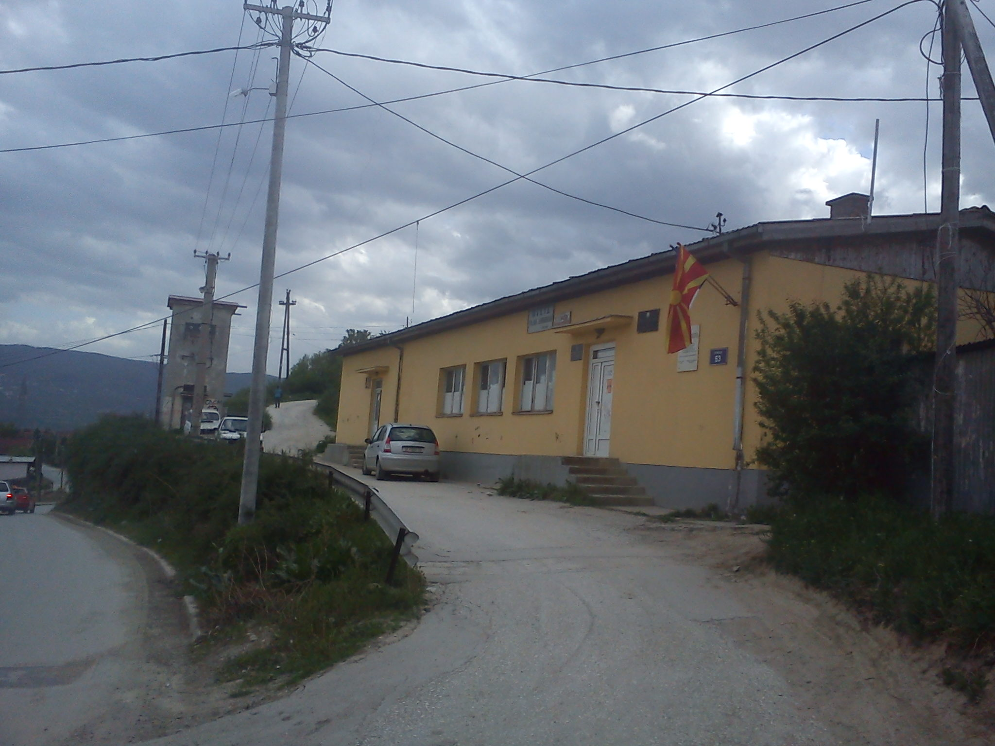 Volkovo, Macedonia